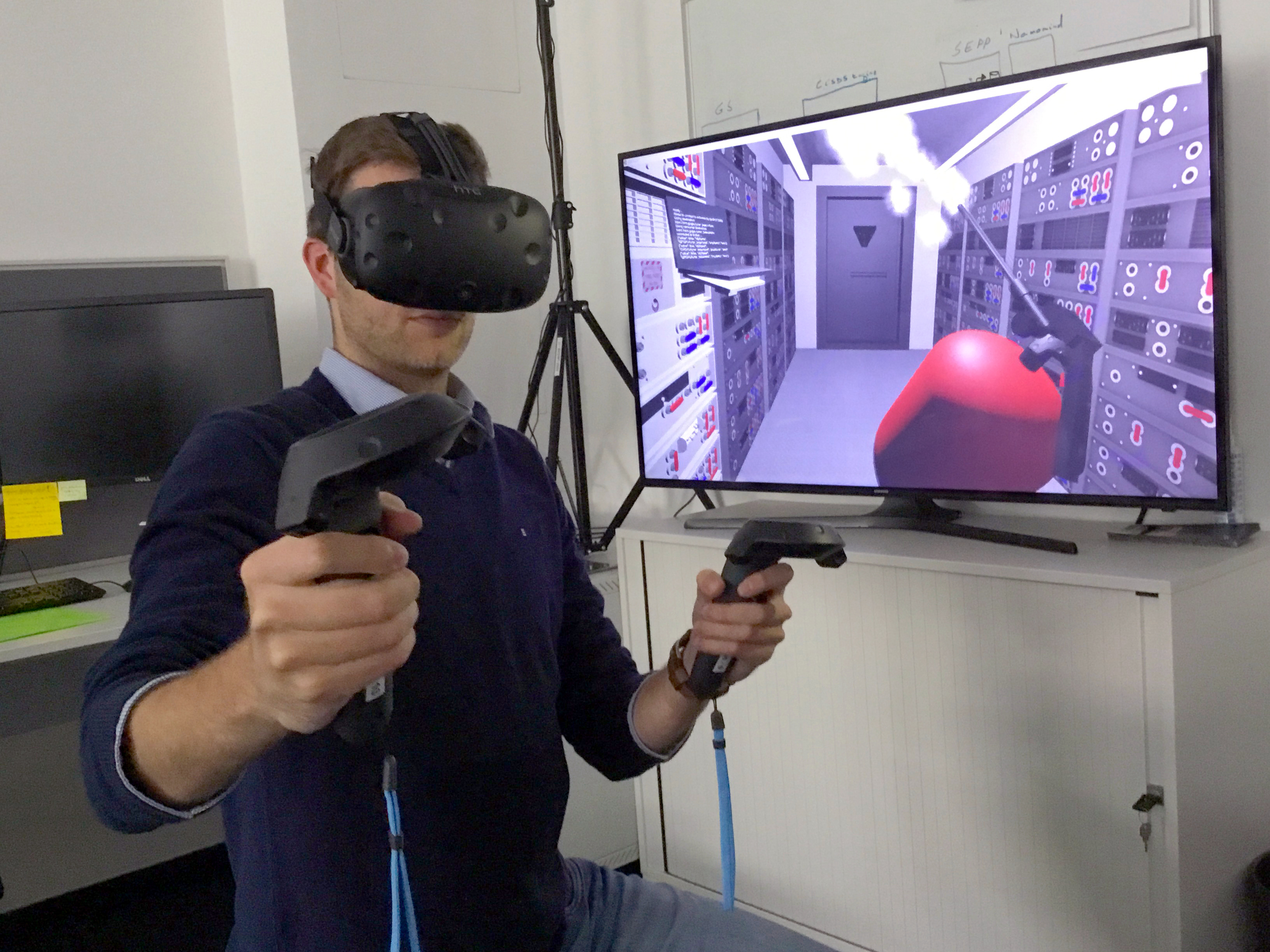 A team of researchers at ESA’s mission control centre in Darmstadt, Germany, are investigating new concepts for controlling rovers on a planet and satellites in orbit. One approach is to assess the latest developments in augmented and virtual reality and how they can be applied to the stringent operational and safety requirements of spaceflight, both robotic and human. “In one case, we are looking into emerging technologies such as virtual and augmented reality, working together with colleagues from ESA’s European Astronaut Centre in Cologne,” says Mehran Sarkarati. “In particular, we are developing prototypes in astronaut operations and training while identifying scenarios for interactive spacecraft and robotic control.” In this image, Steffen Bamfaste, a data systems engineer, demonstrates how astronauts might train in future to extinguish a fire inside a lunar habitat. Similar augmented reality technology holds promise for satellite control by means of virtual displays and advanced, integrated team communication capabilities. Today, engineers must upload a stack of commands to instruct a satellite to adjust its orbit or a rover to switch one of its onboard devices on or off, for example. In future, perhaps they’ll do this with a simple wave of a hand. More information Advanced Ground Software Applications Laboratory